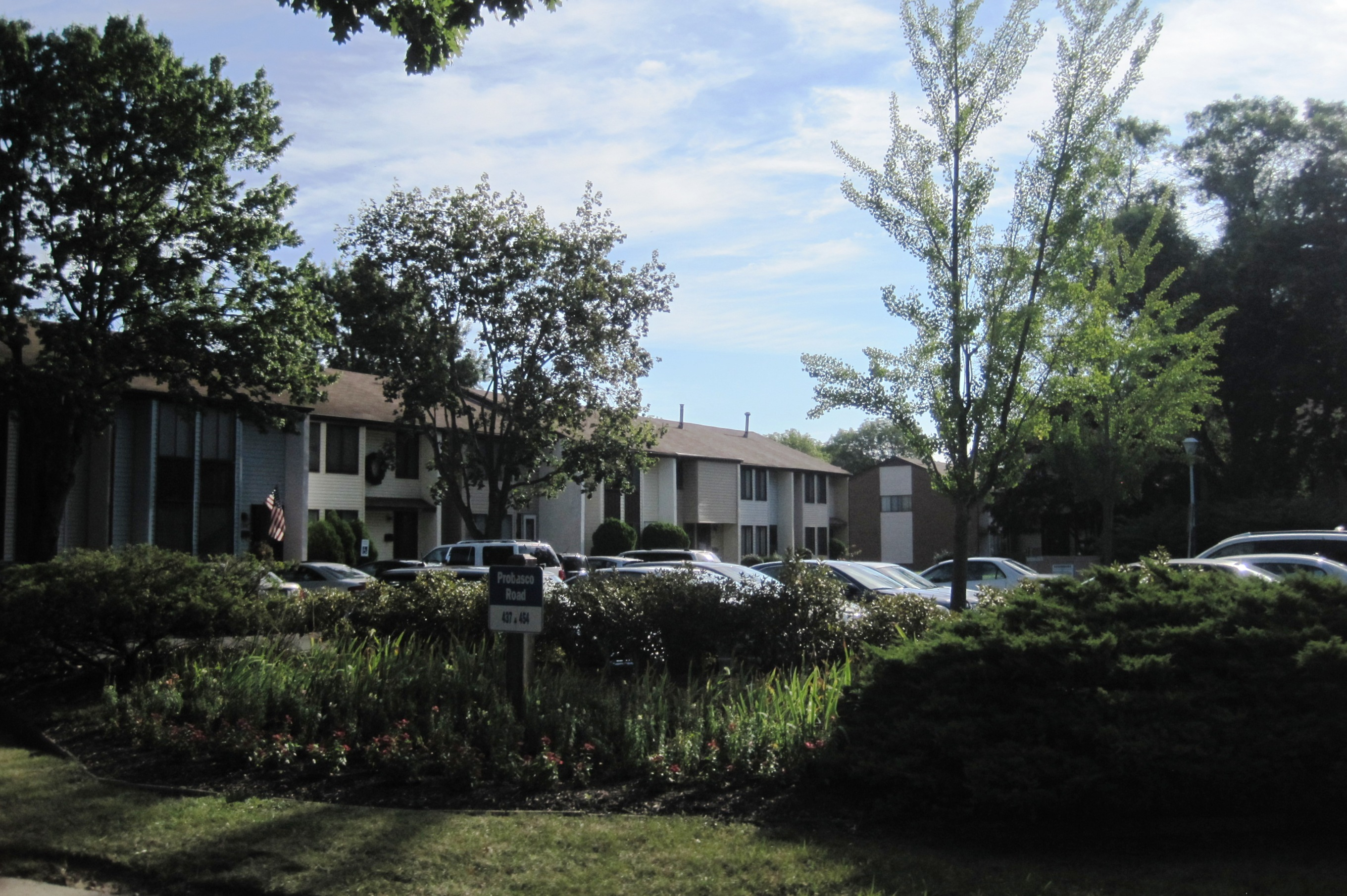 Photo of a typical complex at Twin Rivers, New Jersey, a census designated place and planned community within East Windsor Township. Photo taken along Probasco Road.